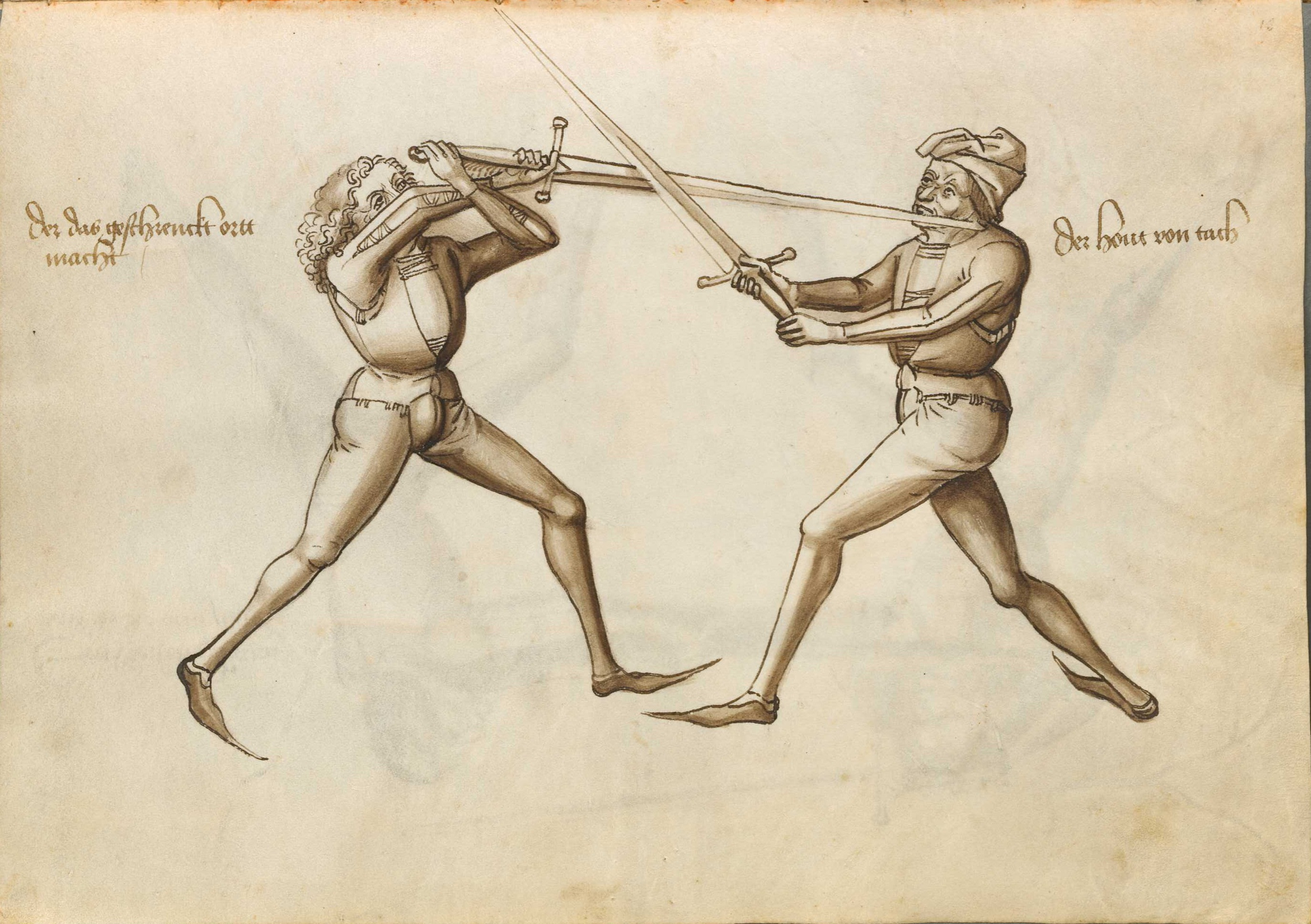 This is a scan of the historical Fechtbuch ('fencing book') by German fencing master Hans Talhoffer.